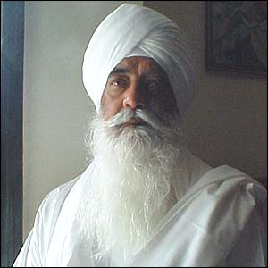 Sikhism Related Photo of Bhai Mohinder Singh of GNNSJ, Birmingham, UK. A prominent Sikh Spiritual Leader in the UK